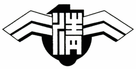 One Old Logo of Tsinghua, for wearing, before 1949